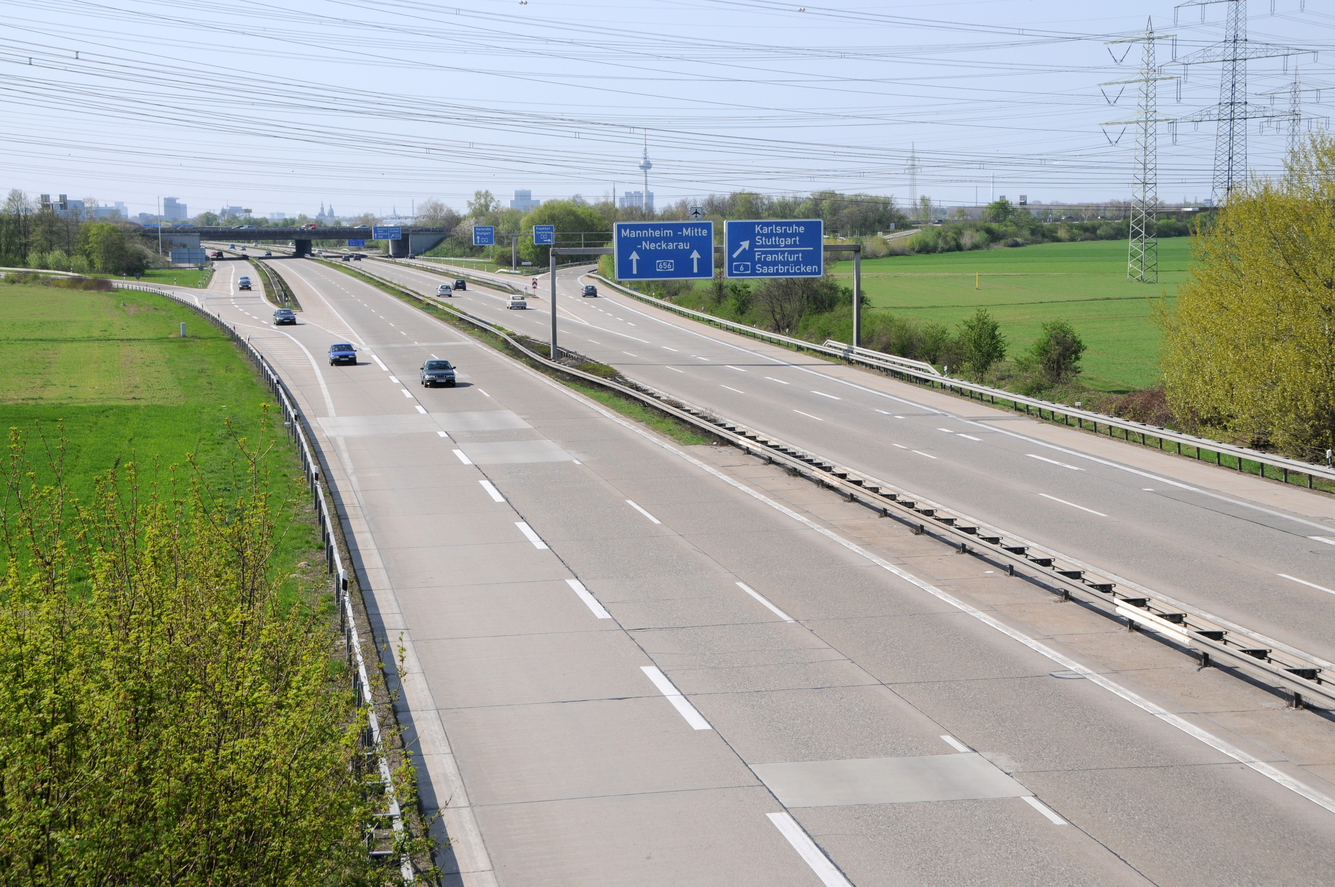 Bundesautobahn 656, view direction West to interchange Kreuz Mannheim - A6/E50, in the background skyline of Mannheim